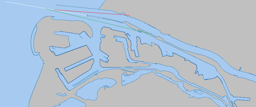 Leading lights of the port of Rotterdam